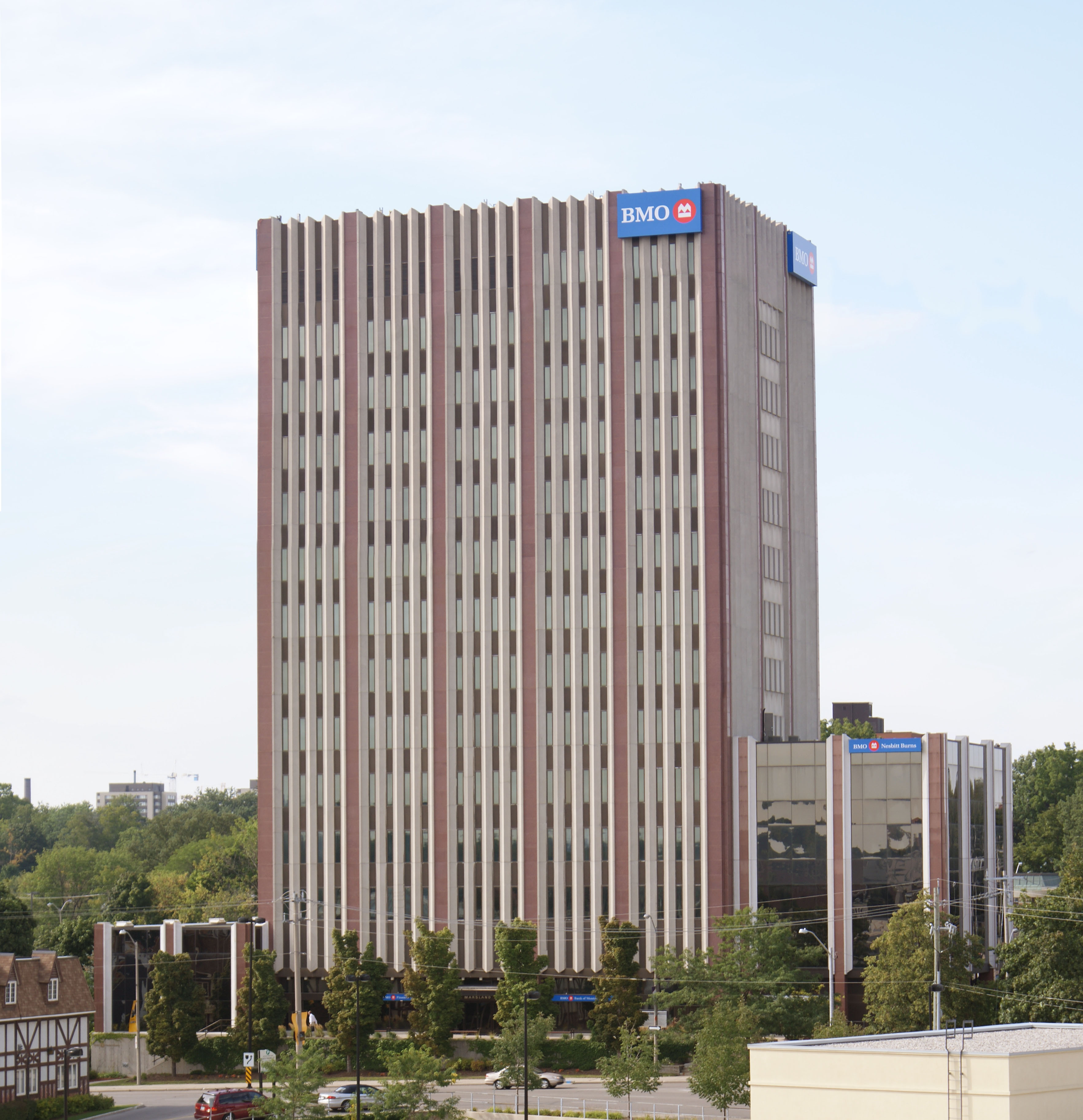 The BMO Building in Uptown Waterloo, Ontario. This is a 3x1 stitched image.